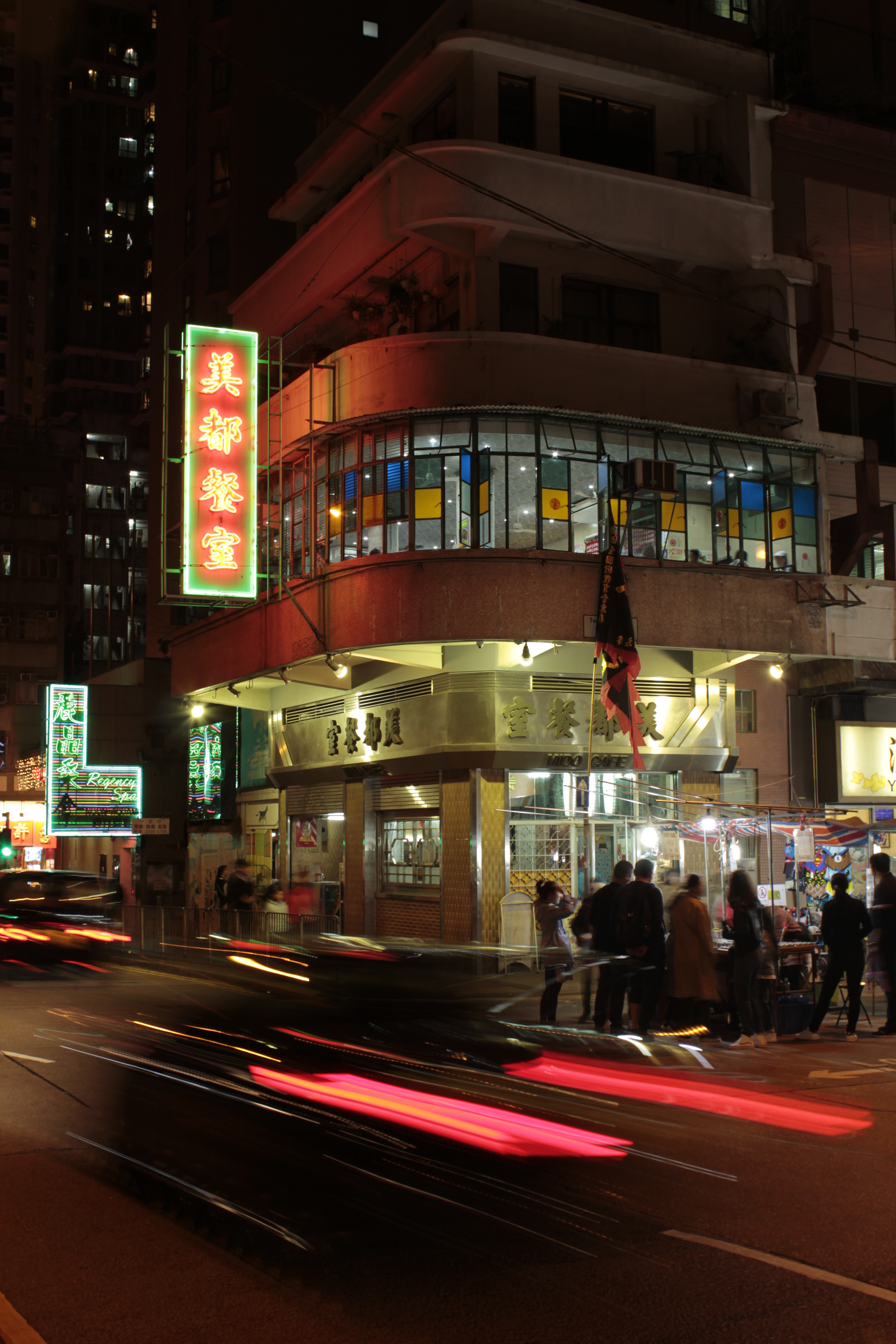 The Mido Cafe located at the junction of Temple Street and Public Square Street in Yau Ma Tei. It was opened since 1950 until now, with two floors available as a restaurant.